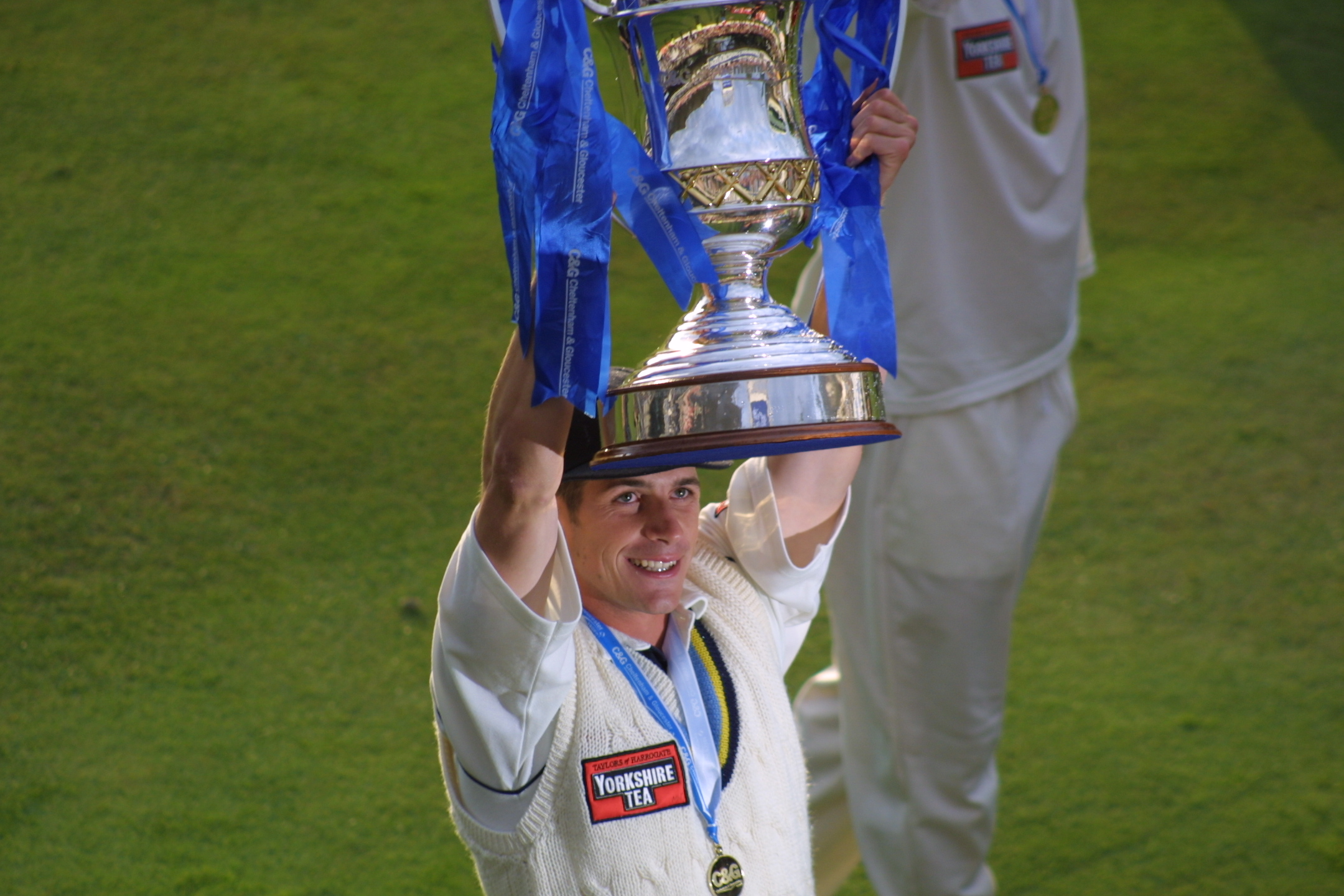 Matthew Wood of Yorkshire (YCCC) raising the Cheltenham & Glocuester (C&G) Cup at Lord's